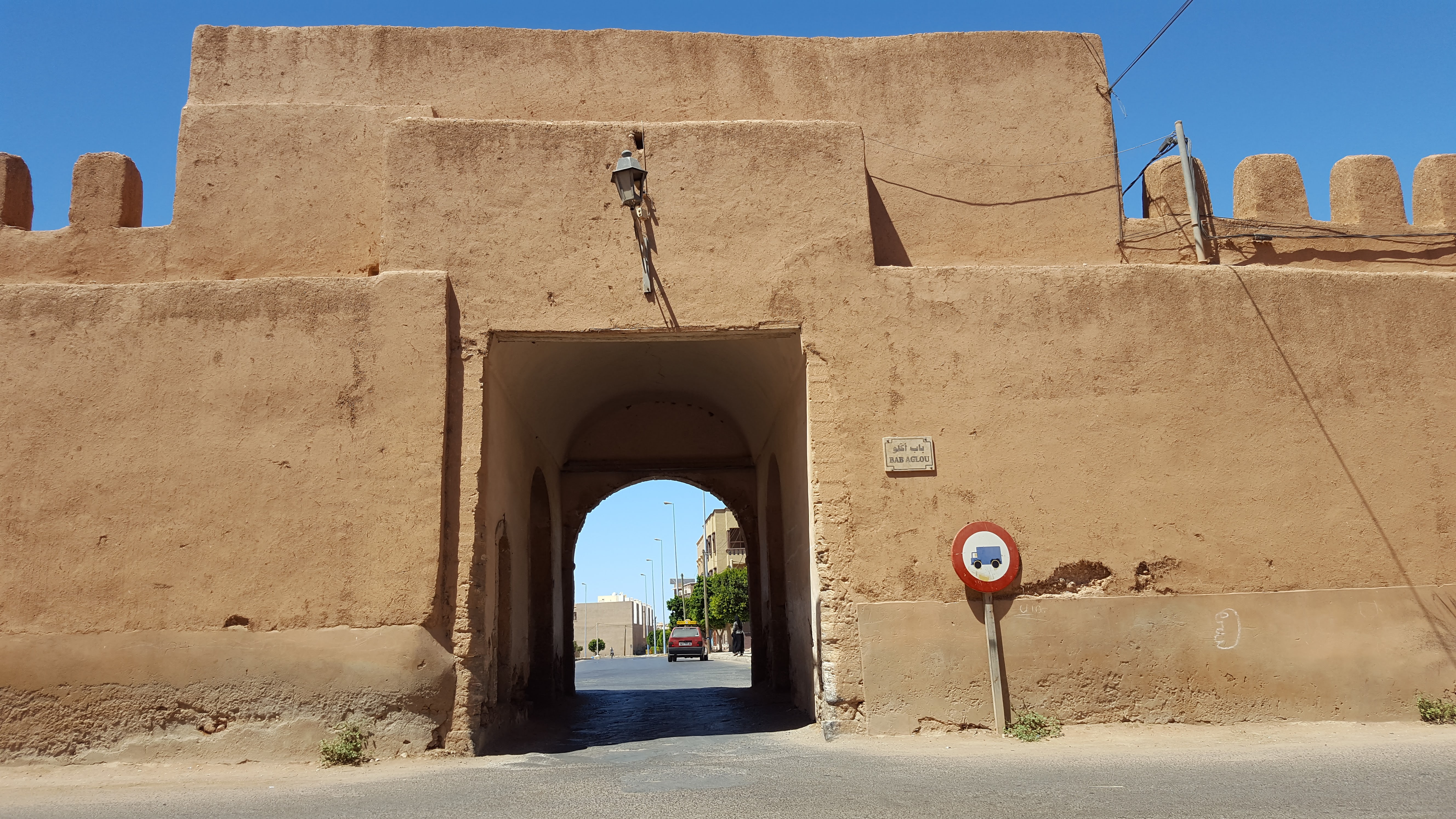 Ramparts, gates and bastions of Tiznit.